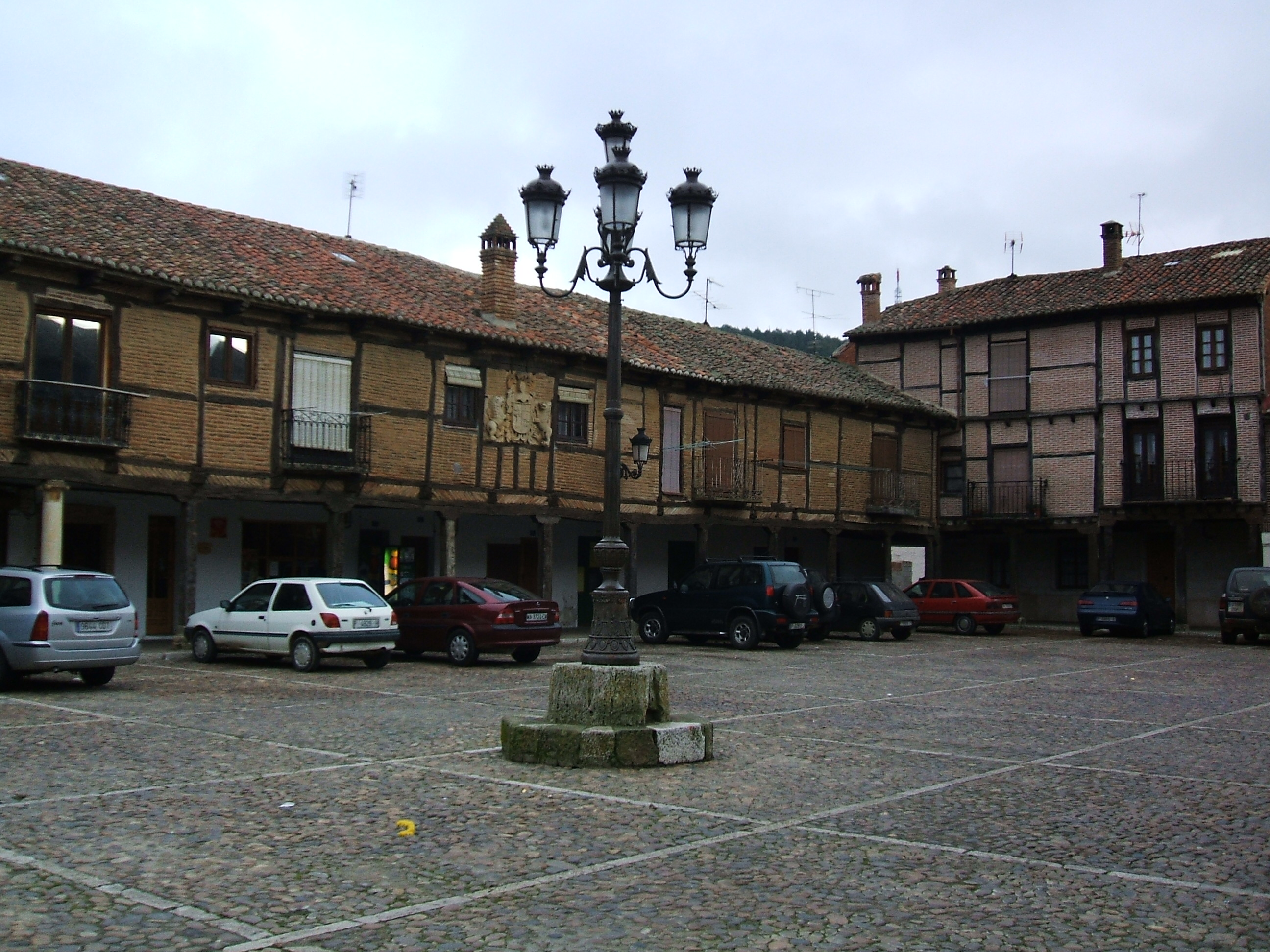 Square ("Plaza Vieja") in Saldaña, Palencia, Spain.